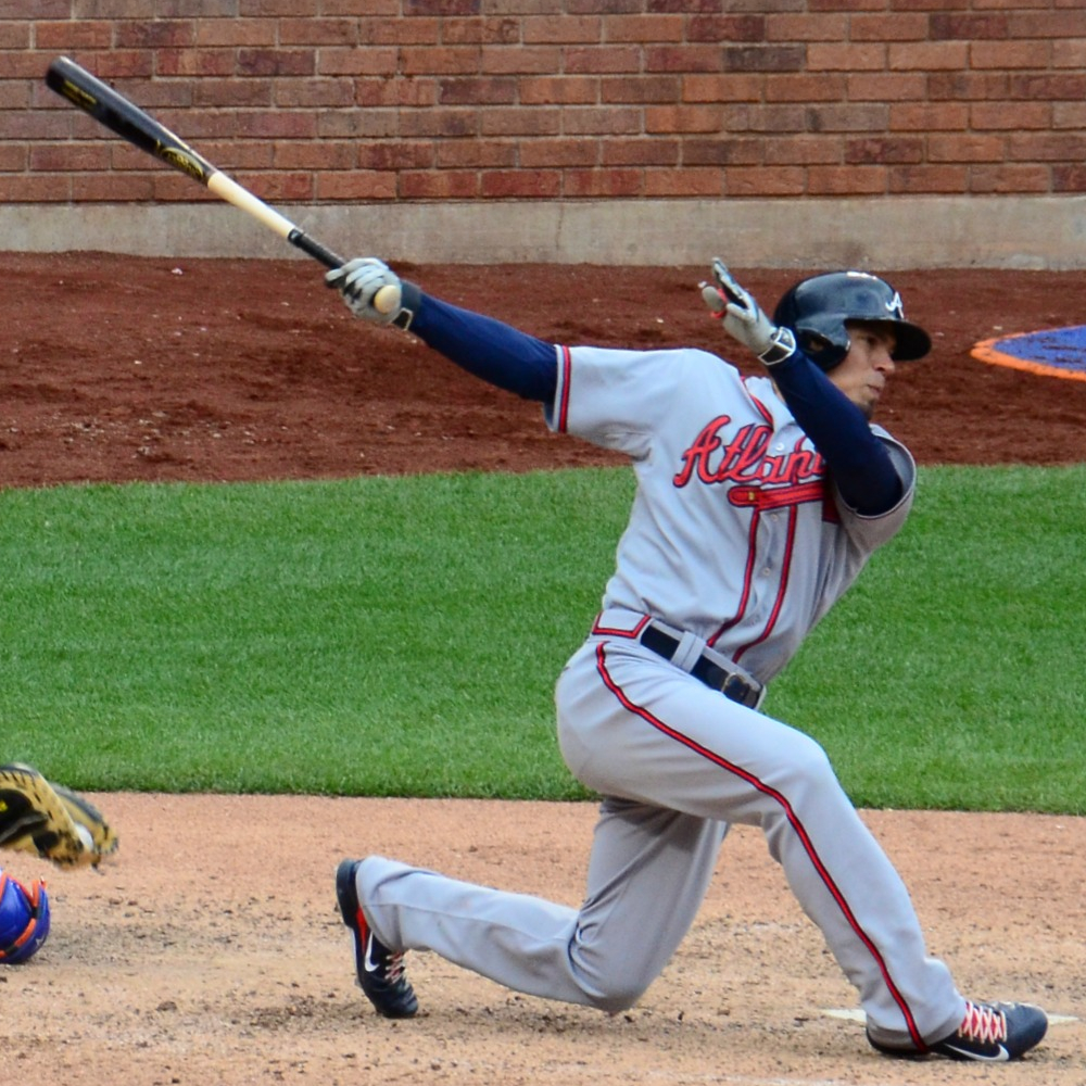 Jace Peterson